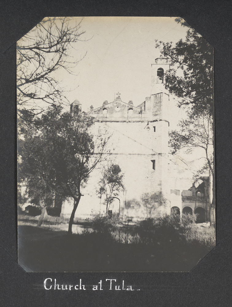 Title: Church at Tula. Creator: Unknown Date: 1902 Part Of: Tourist album: Mexico, Arizona, California, Colorado and Utah Place: Tula de Allende, Hidalgo, Mexico Description: This is one of 287 photographs in an album entitled, 'Tourist Album: Mexico, Arizona, California, Colorado and Utah.' Physical Description: 1 photographic print: gelatin silver, part of 1 album (287 gelatin silver prints); 13 x 10 cm on 28 x 35 cm mount File: ag2000_1304_31a_1_opt.jpg Rights: Please cite DeGolyer Library, Southern Methodist University when using this file. A high-resolution version of this file may be obtained for a fee. For details see the web page. For other information, . For more information and to view in high resolution, see: View the Mexico: Photographs, Manuscripts, and Imprints Collection